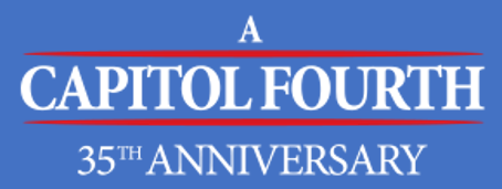 The file shows the 35th Anniversary.